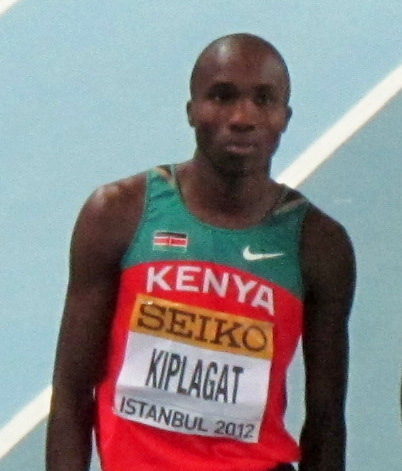 The 2012 IAAF World Indoor Championships in Athletics was the 14th edition of the global-level indoor track and field competition and was held between March 9–11, 2012 at the Ataköy Athletics Arena in Istanbul, Turkey. Silas Kiplagat